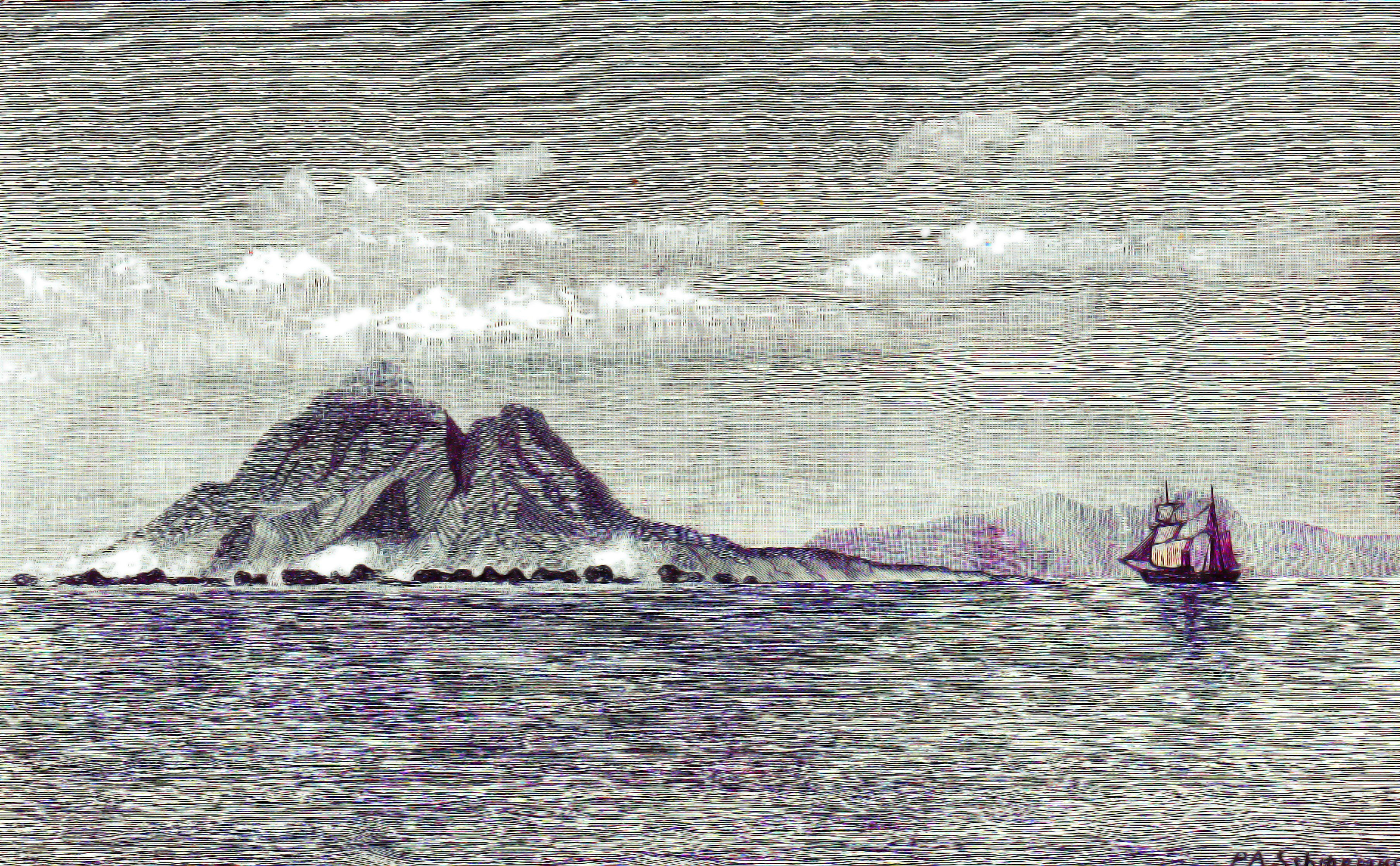 Straat Soenda